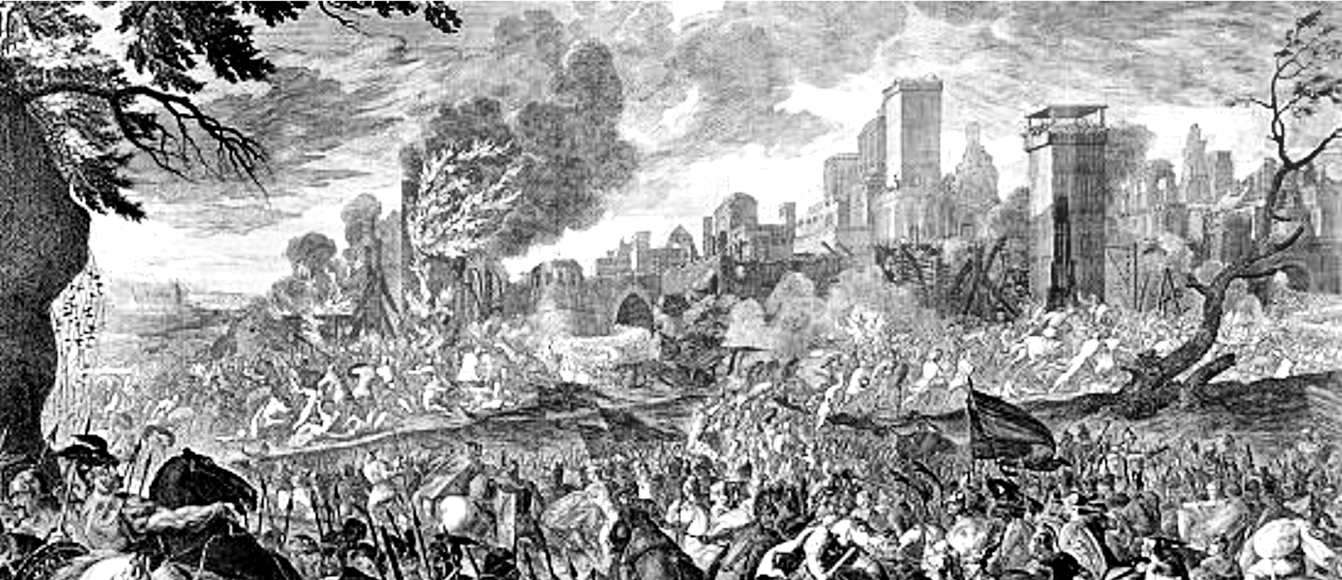 The siege and capture of Halicarnassus under Alexander the Great